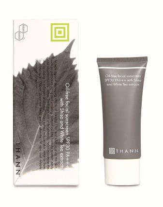 THANN Shiso Sunscreen SPF 30 PA+++